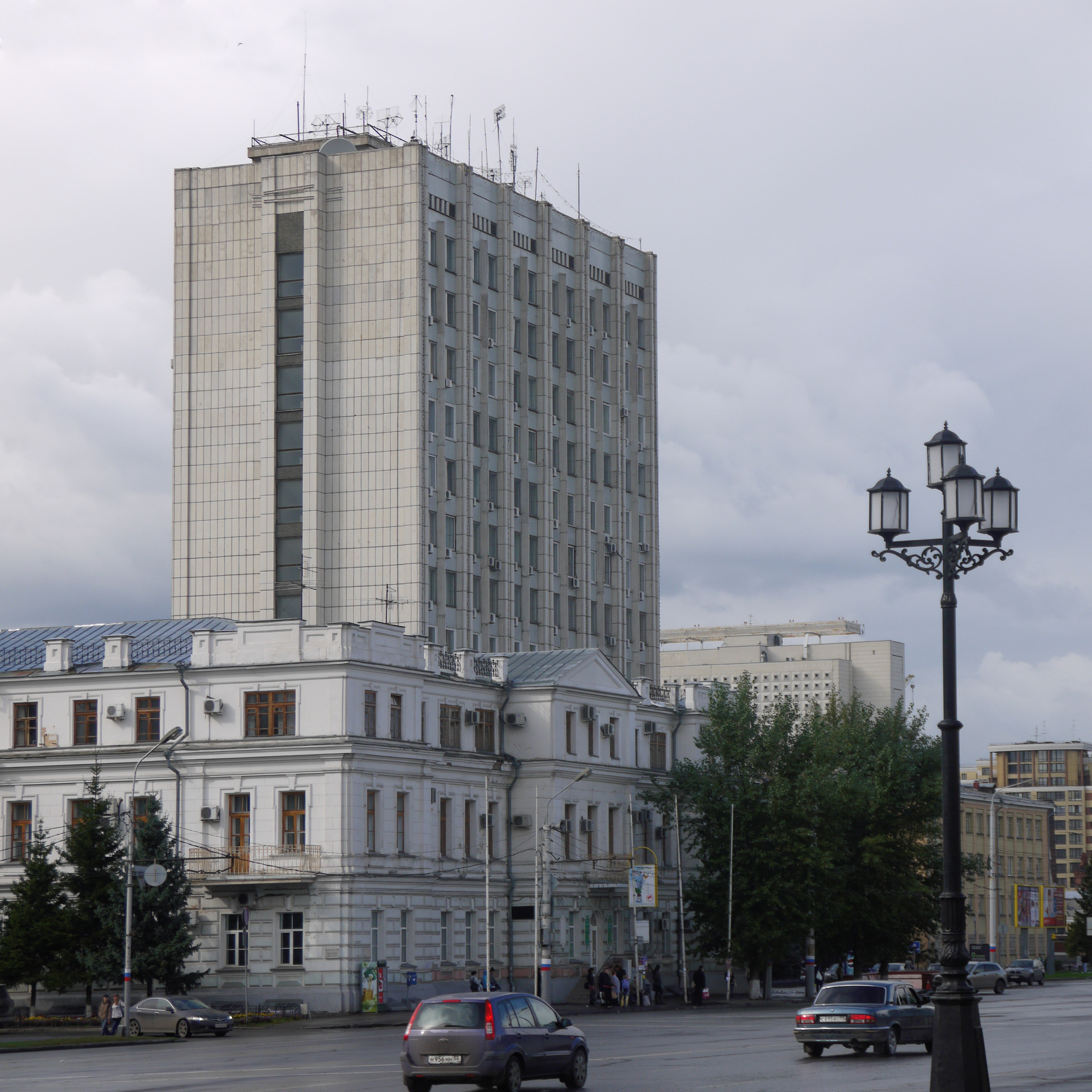 Red Way.